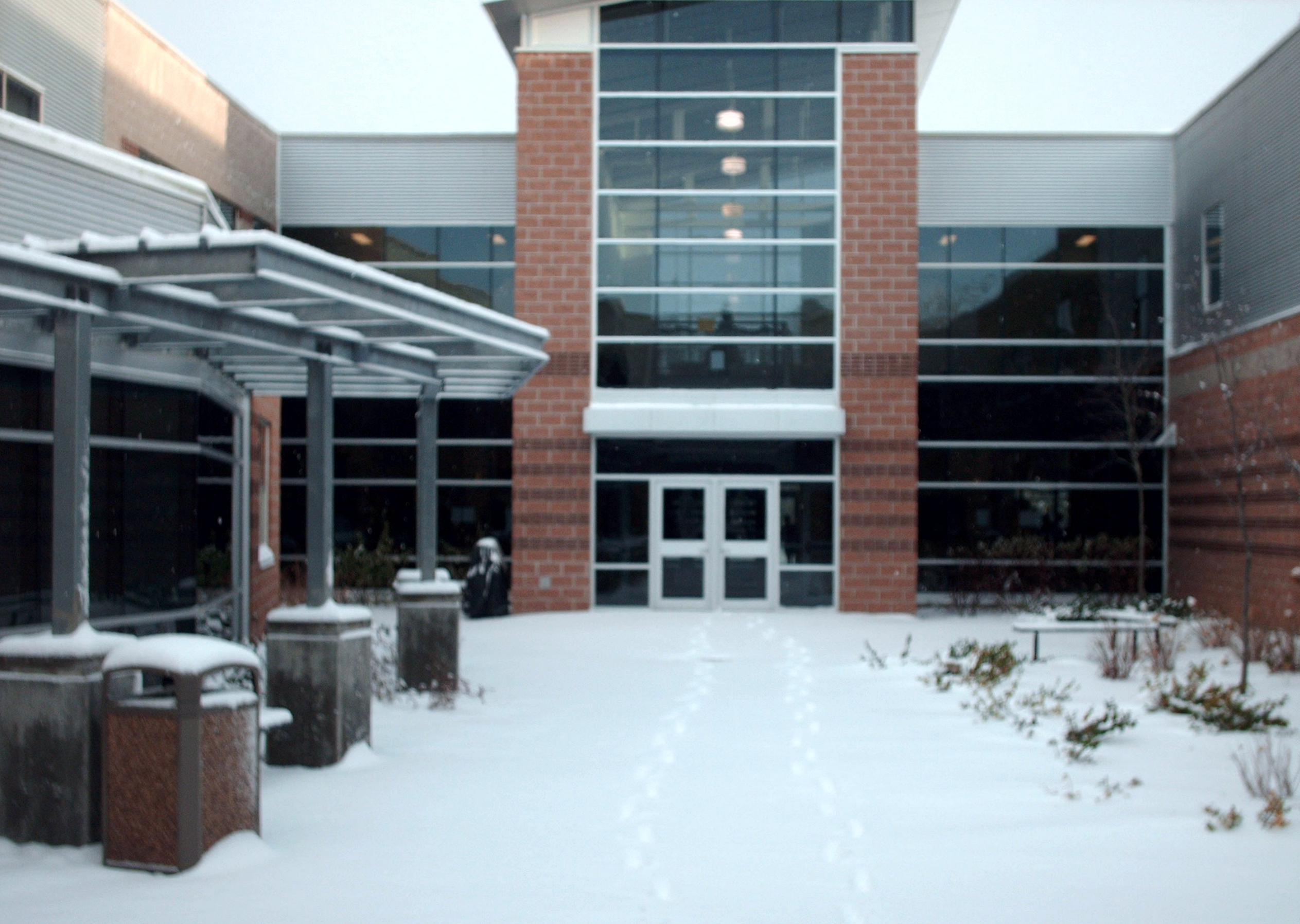 It's a picture of the North Nova Education Centre courtyard in the morning. I took it with an HP Photosmart E317 digital camera.